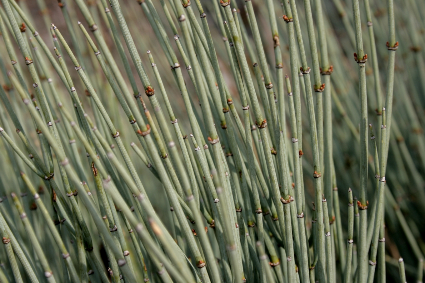 Ephedra intermedia: Shoots.